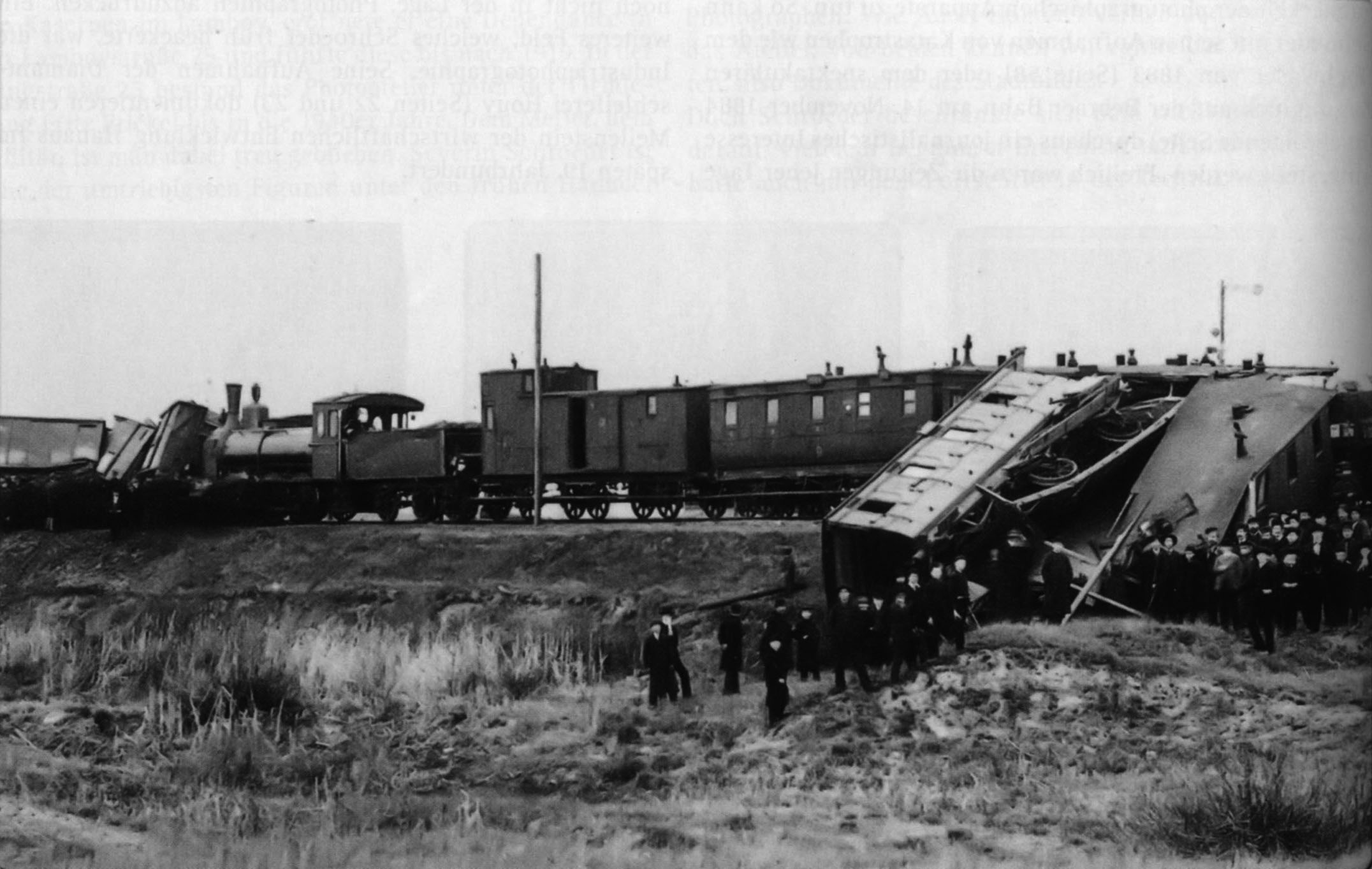 Rail accident near Hanau station